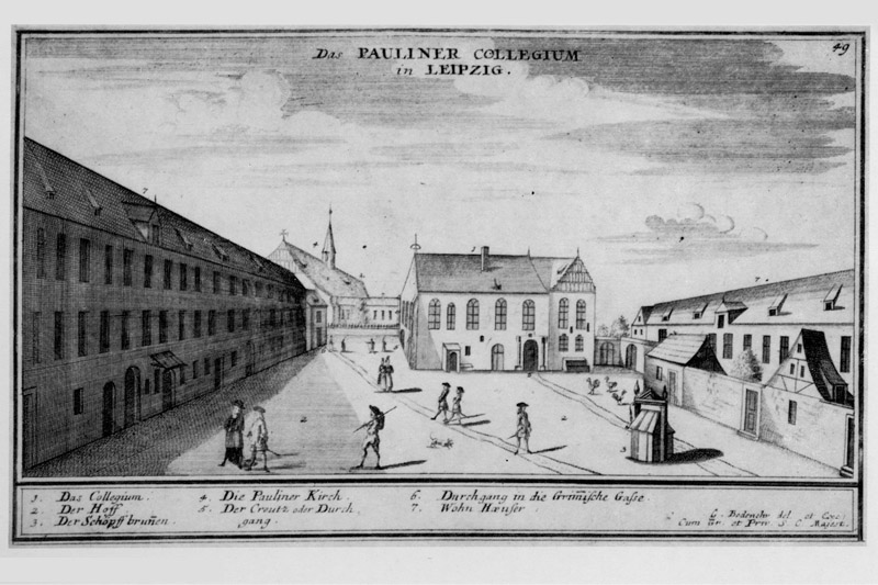 Eighteenth century engraving of the Mittelpaulinum in the University of Leipzig with the university church the Paulinerkirche in the background